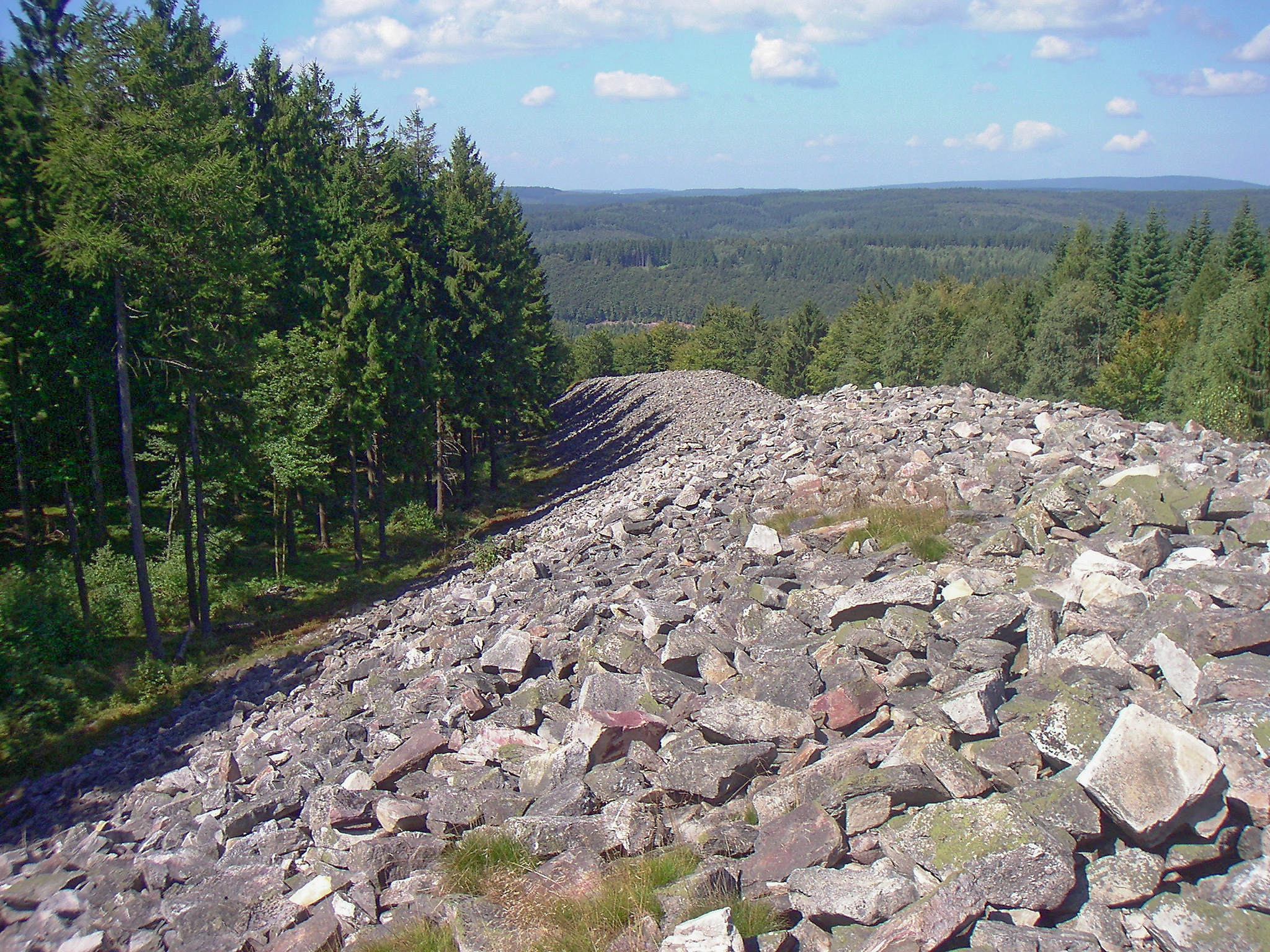 Remnants of celtic fortifications near Otzenhausen